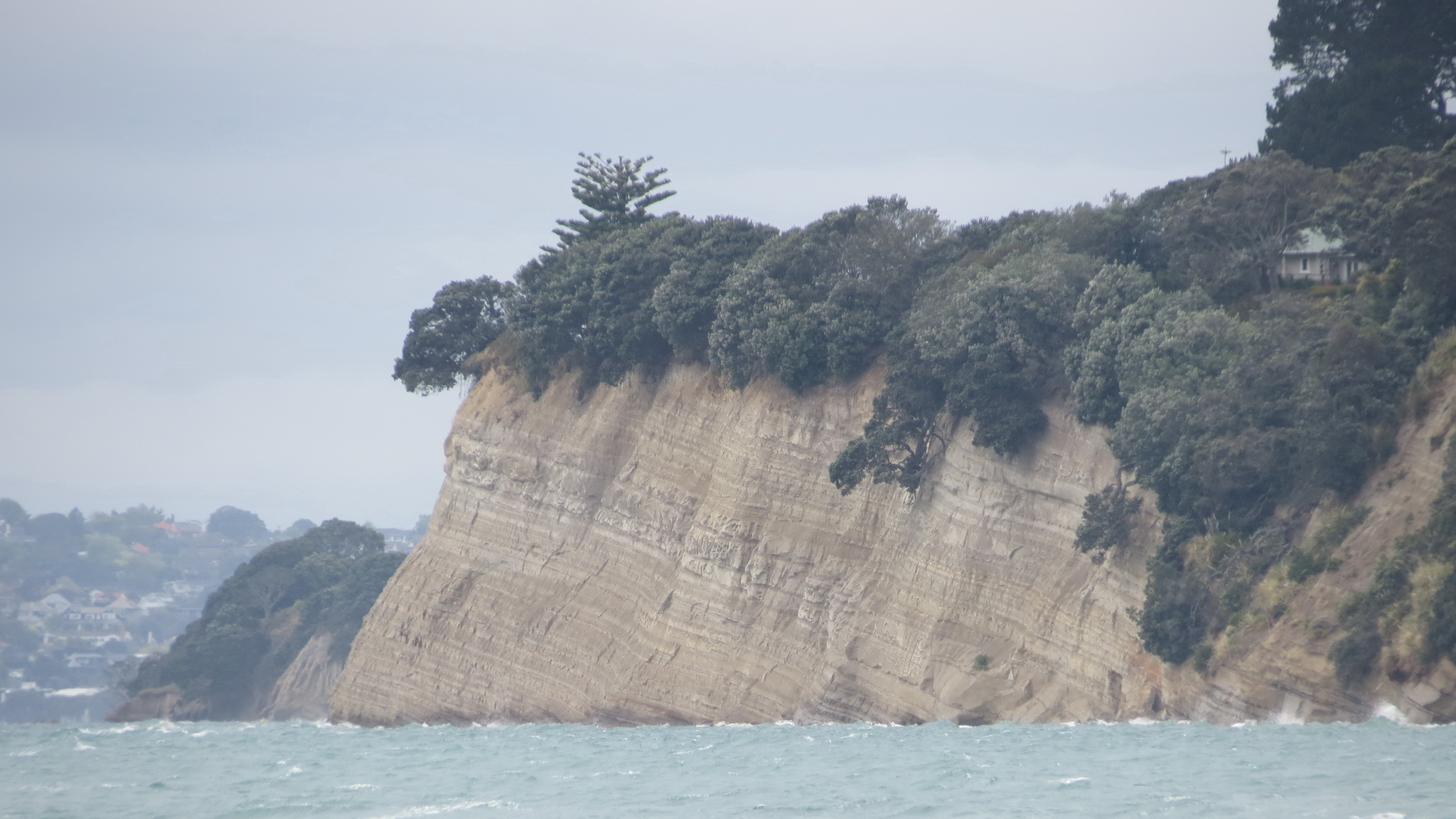 View from Takapuna Beach, Auckland